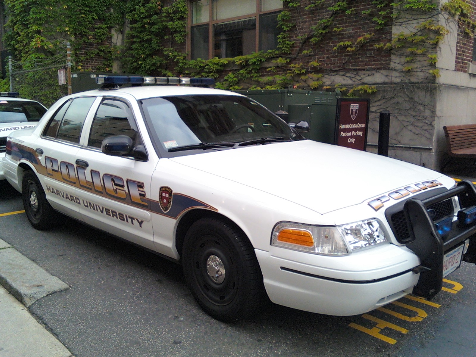 Harvard University Police Department police vehicle